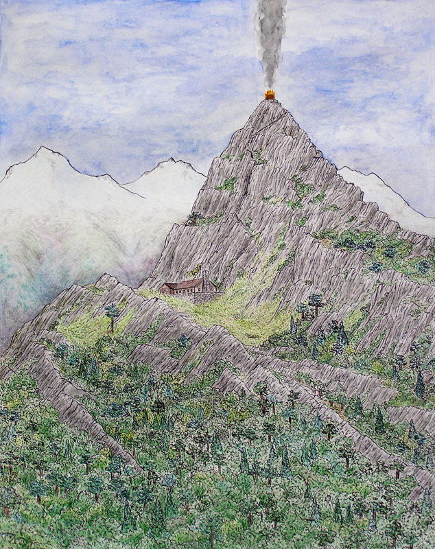 Eilenach, one of the warning beacons of Gondor.